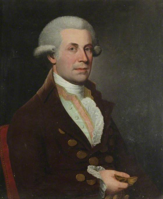 Portrait of Thomas Farnolls Pritchard (1723-1777), architect of the Iron Bridge